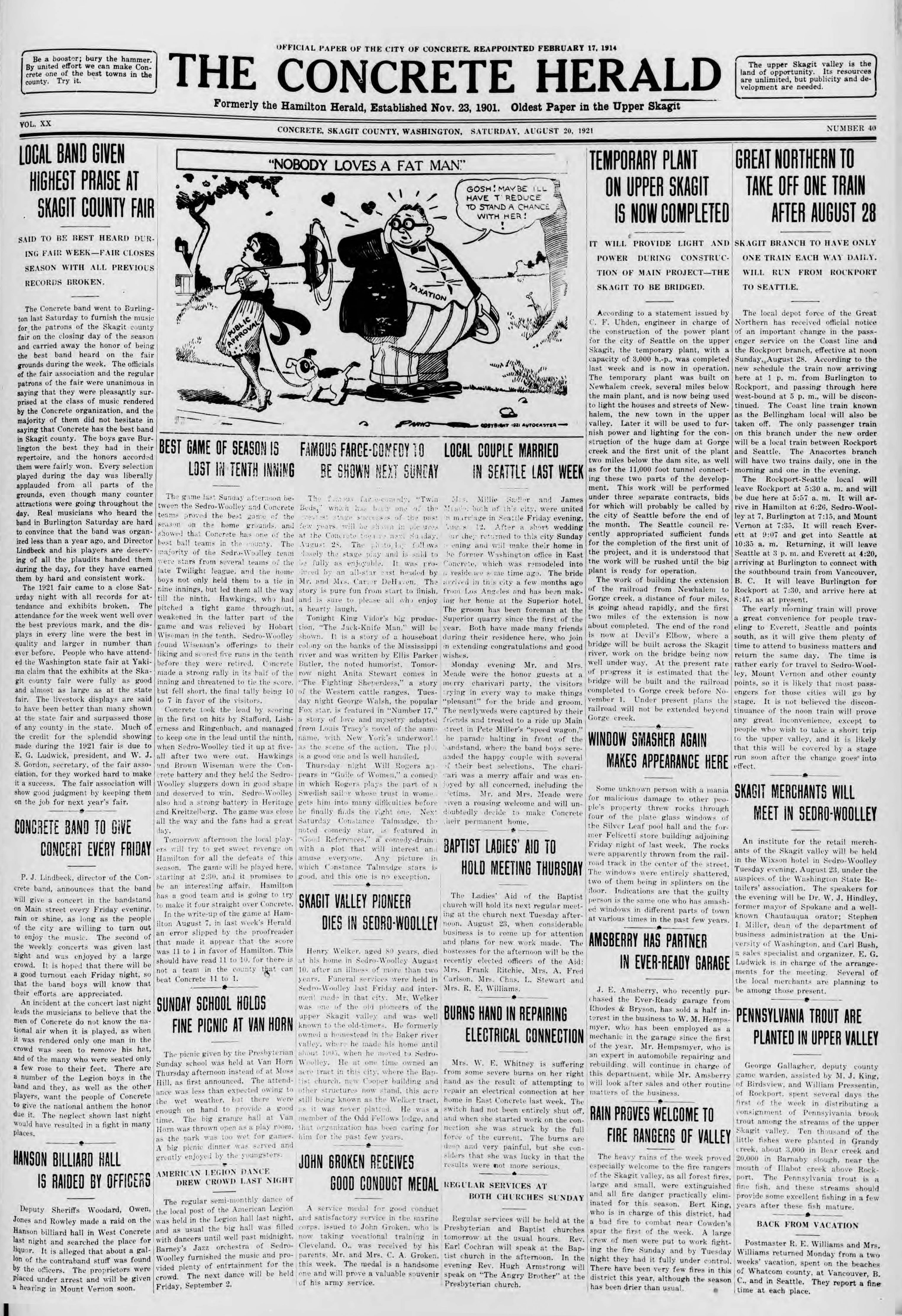 First page of The Concrete Herald, August 20, 1921